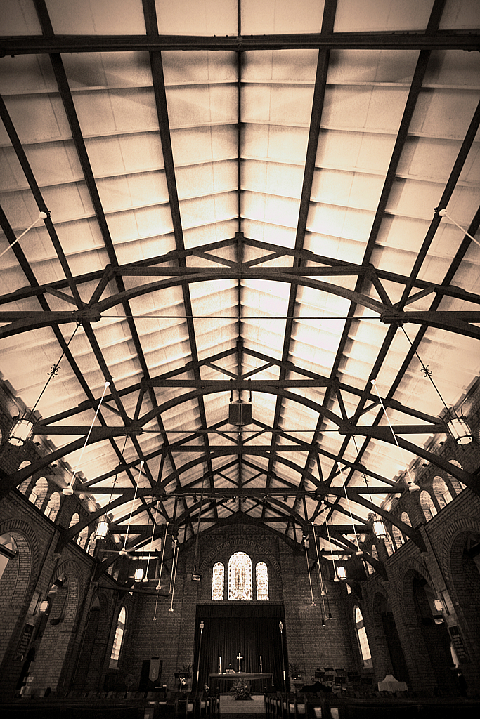 The roof structure of St. George's Church, Singapore